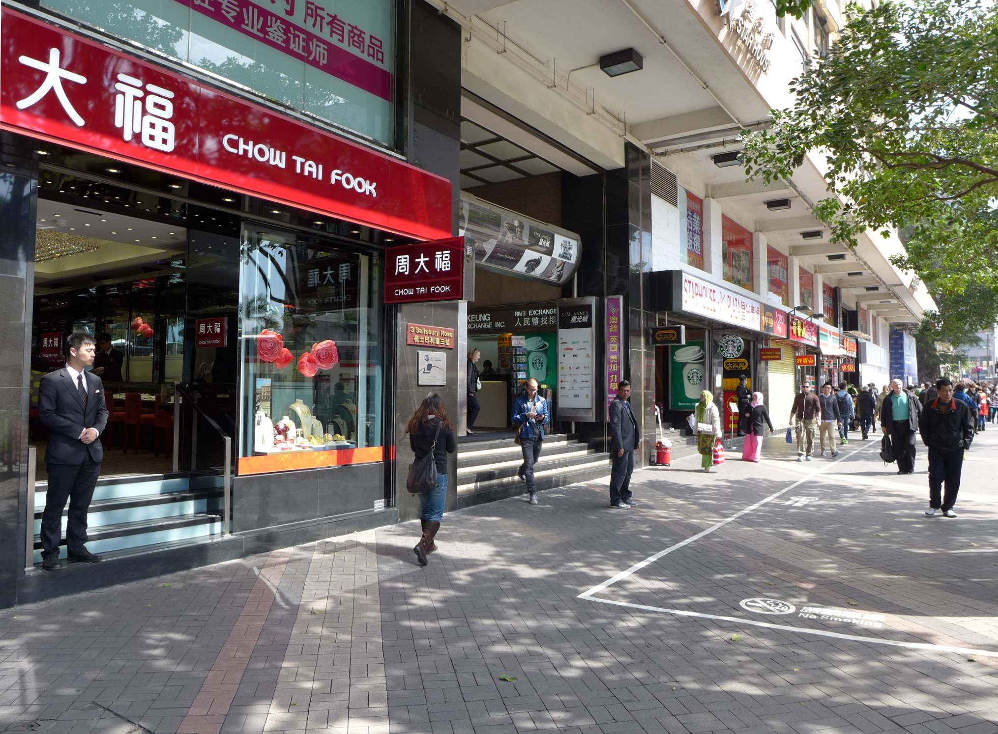 Star House Outside shops